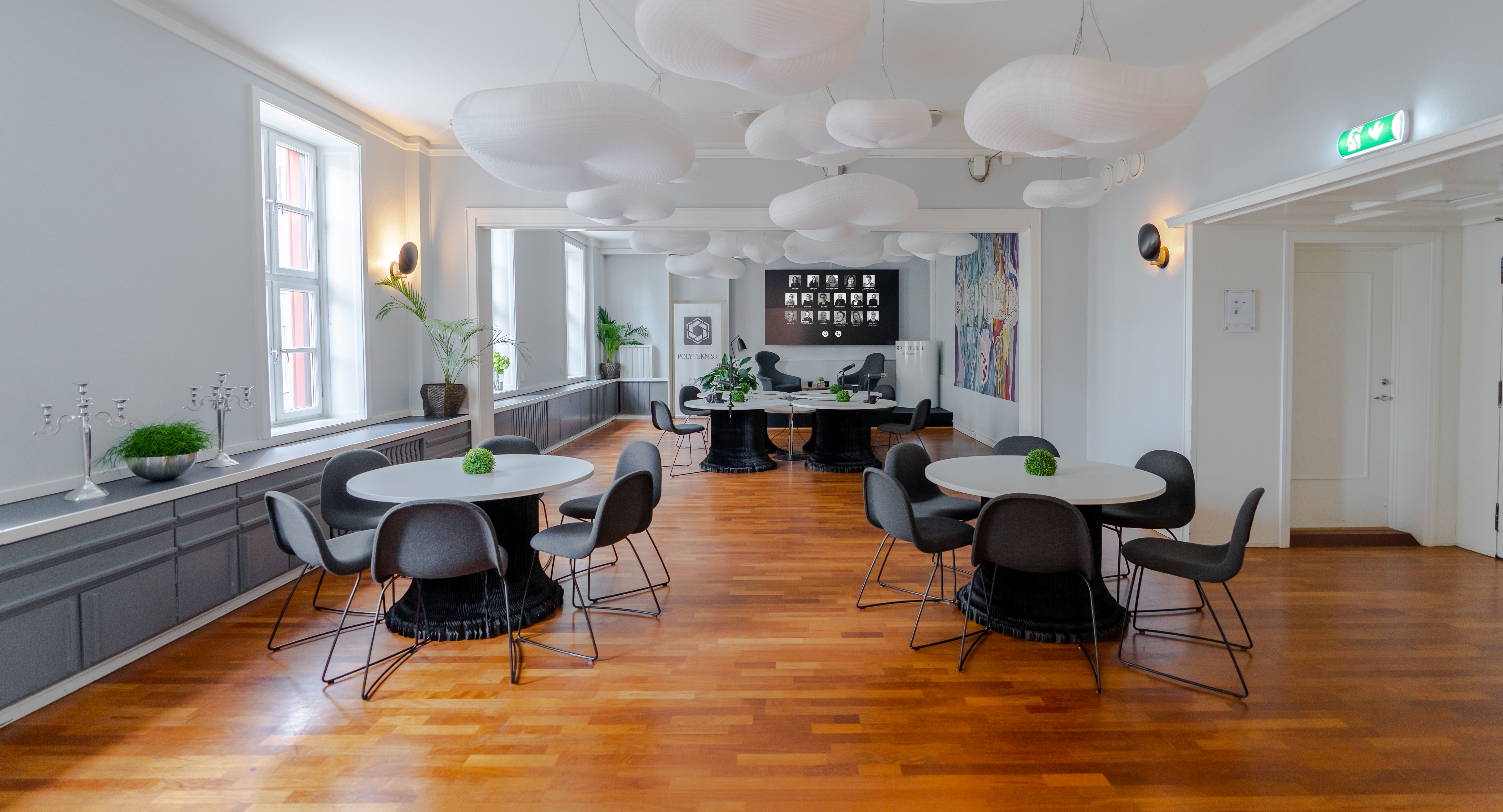 Møtelokalet Klubben hos Polyteknisk Forening brukes til møter og seminarer som holdes av foreningen.